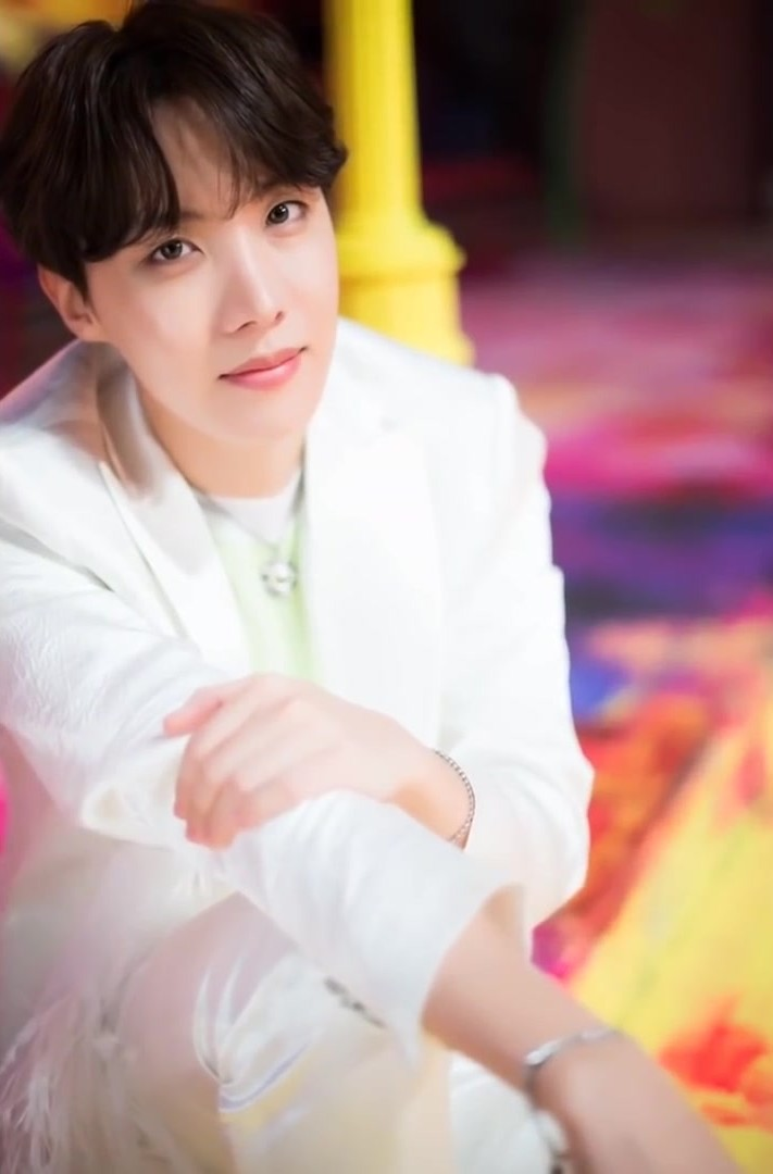 J-Hope for Dispatch "Boy With Luv" MV behind the scene shooting, 15 March 2019